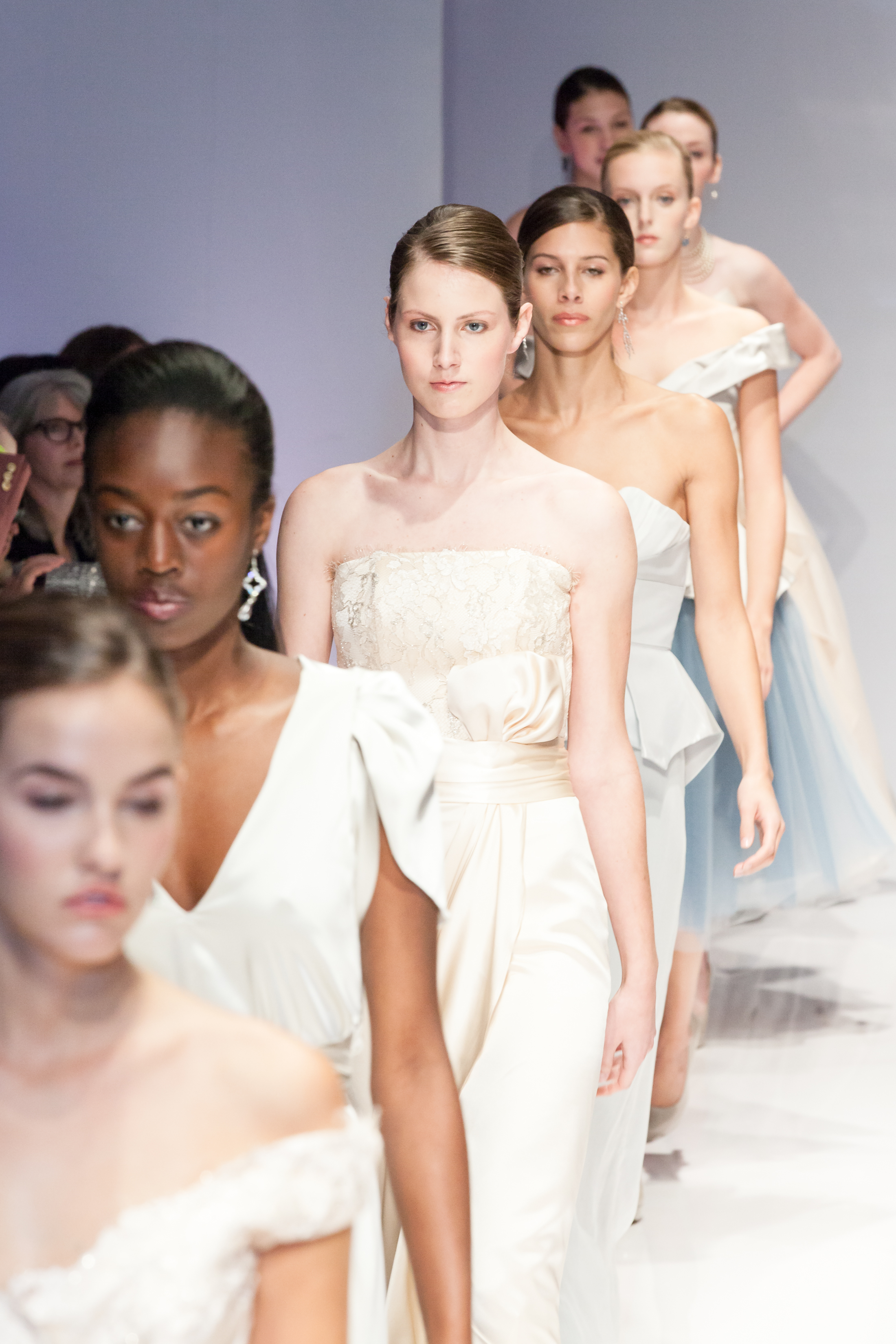 Here is a picture of models during Luke Aaron's showcase at The Boston Fashion Week in 2012